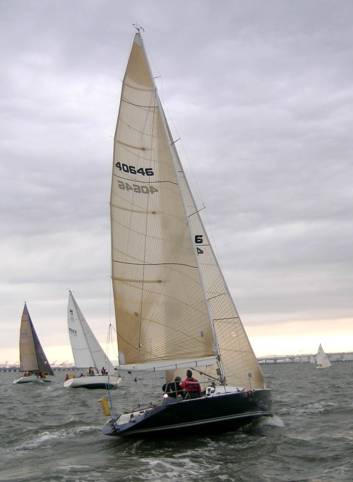 I Kevin Murray took this photo and release it to the public domain